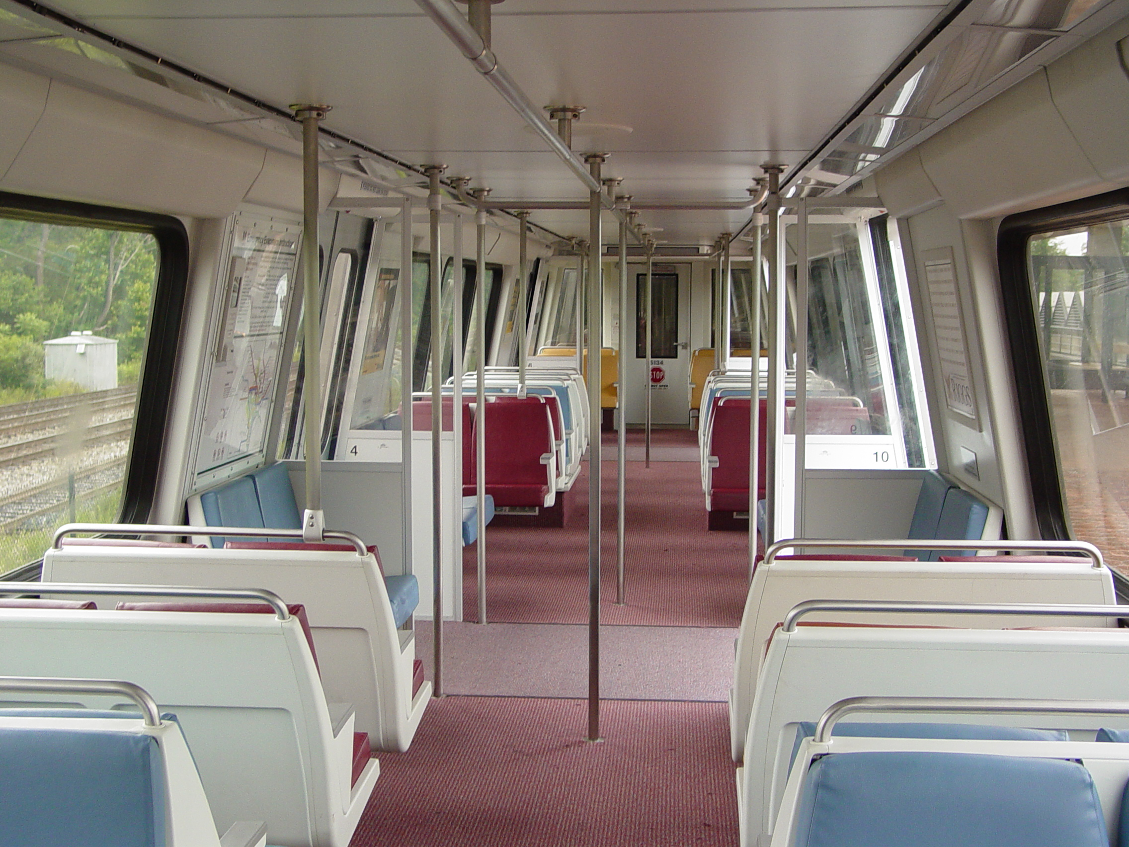 Interior of CAF 5134 on the Washington Metro.